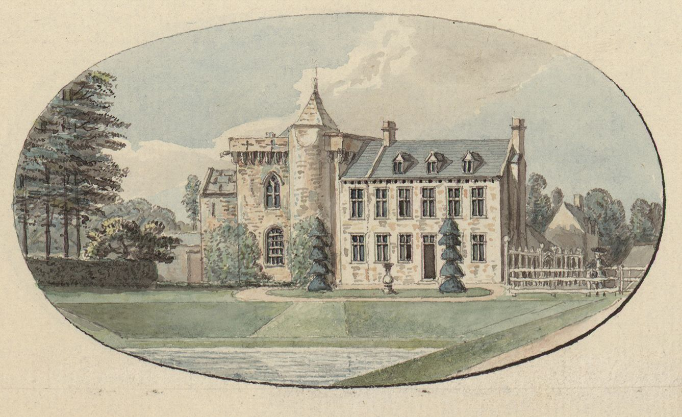 An image from a set of 8 extra-illustrated volumes of A tour in Wales by Thomas Pennant (1726-1798) that chronicle the three journeys he made through Wales between 1773 and 1776. These volumes are unique because they were compiled for Pennant's own library at Downing. This edition was produced in 1781. The volumes include a number of original drawings by Moses Griffiths, Ingleby and other well known artists of the period. Thomas Pennant (1726-1798)